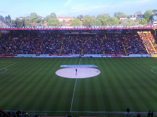 The East Stand at The Valley